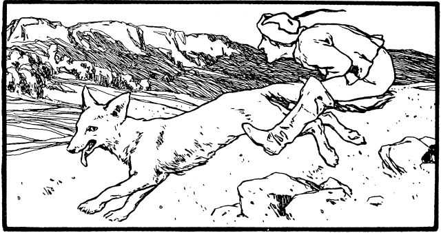 Illustration by Otto Ubbelohde to the fairy tale The Golden Bird